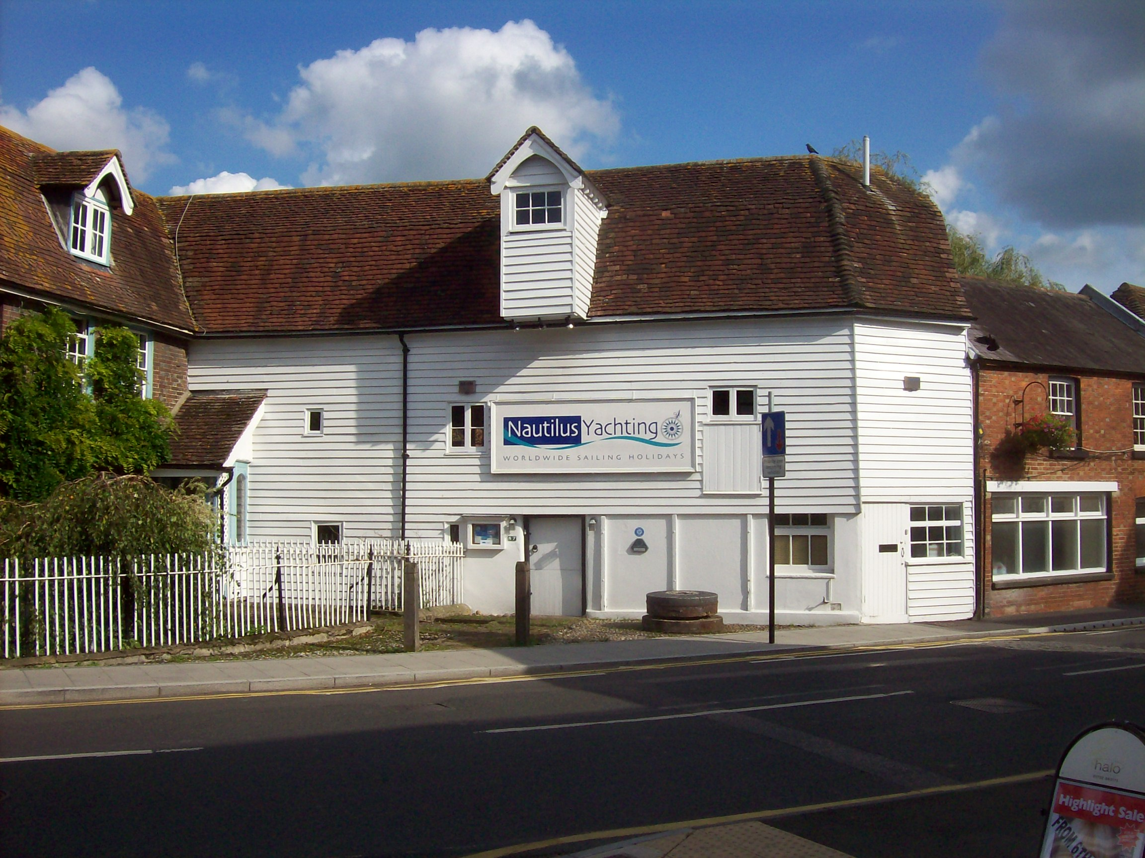 Honour's Mill, Edenbridge, now converted to offices.